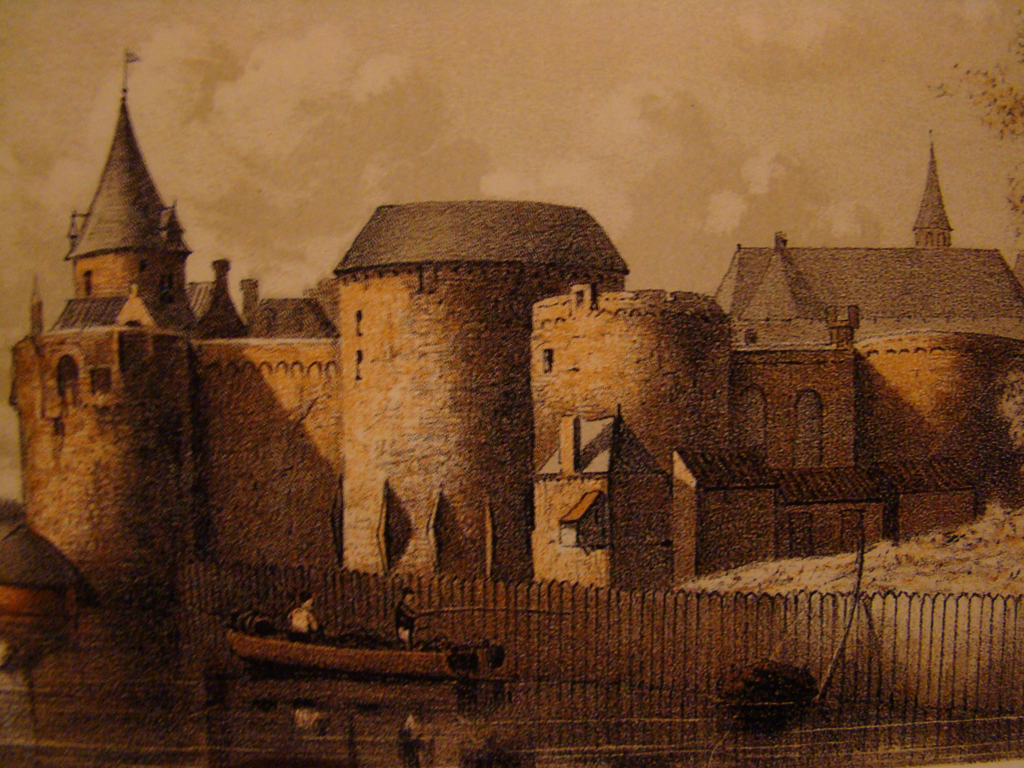 Castles of the Netherland, from the book "Merkwaardige kasteelen in Nederland" by Van Lennep and Hofdijk, 2nd release 1884.